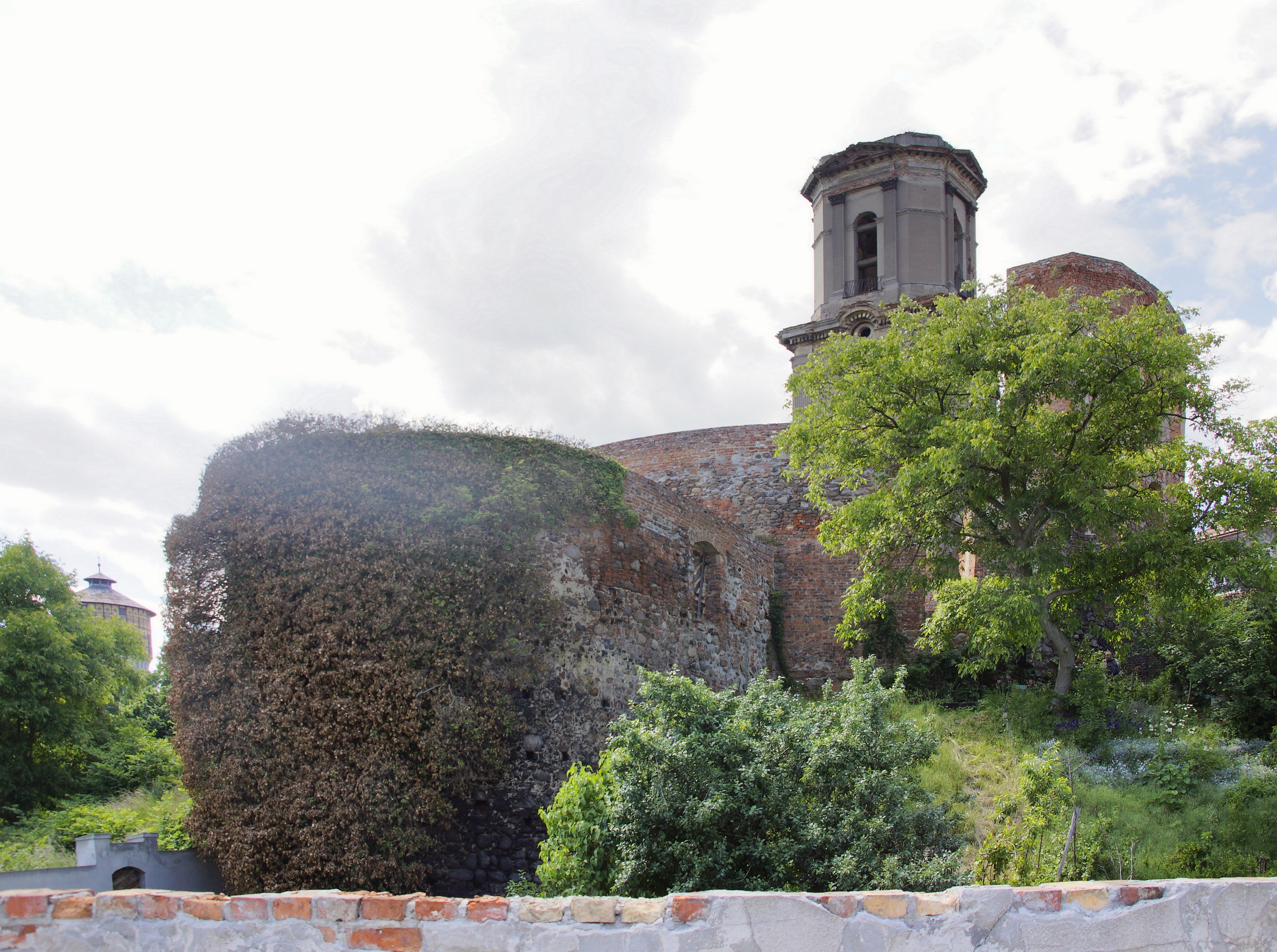 Szprotawa, its protestant church's ruins seen from the east side show their castle origins